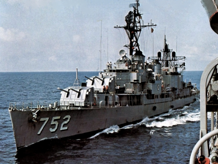 The U.S. Navy destroyer USS Alfred A. Cunningham (DD-752) alongside the guided missile cruiser USS Long Beach (CGN-9) in the Pacific Ocean.